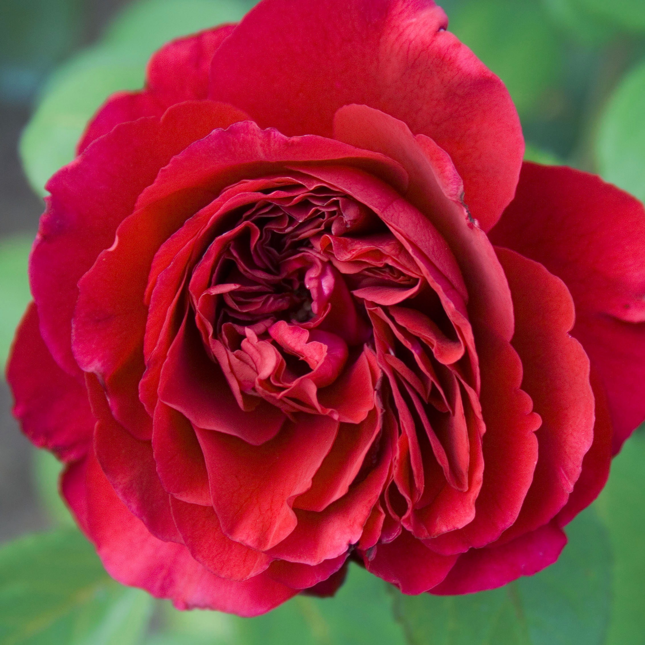 ROSA NADIA - Renaissance Rose